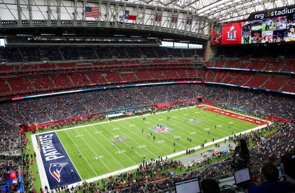 NRG Stadium in Houston, Texas, just an hour before kickoff of the Super Bowl, the biggest annual sporting event in the United States.